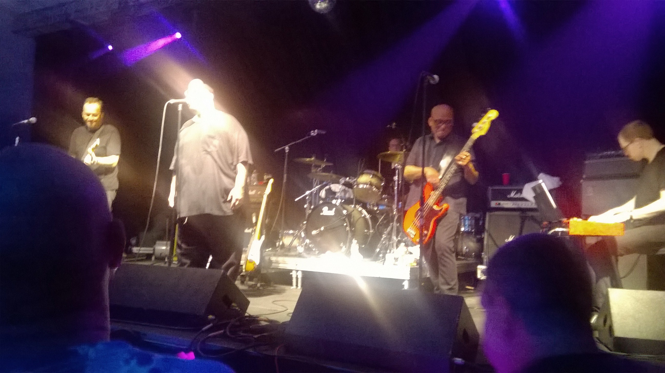 The Smithereens perform at WNTIStage in Columbia, NJ. From left, Jim Babjak, PatDiNizio (partly obscured by stage lights), Dennis Diken (rear), Severo "The Thrilla" Jornacion, and guest Andy Burton.